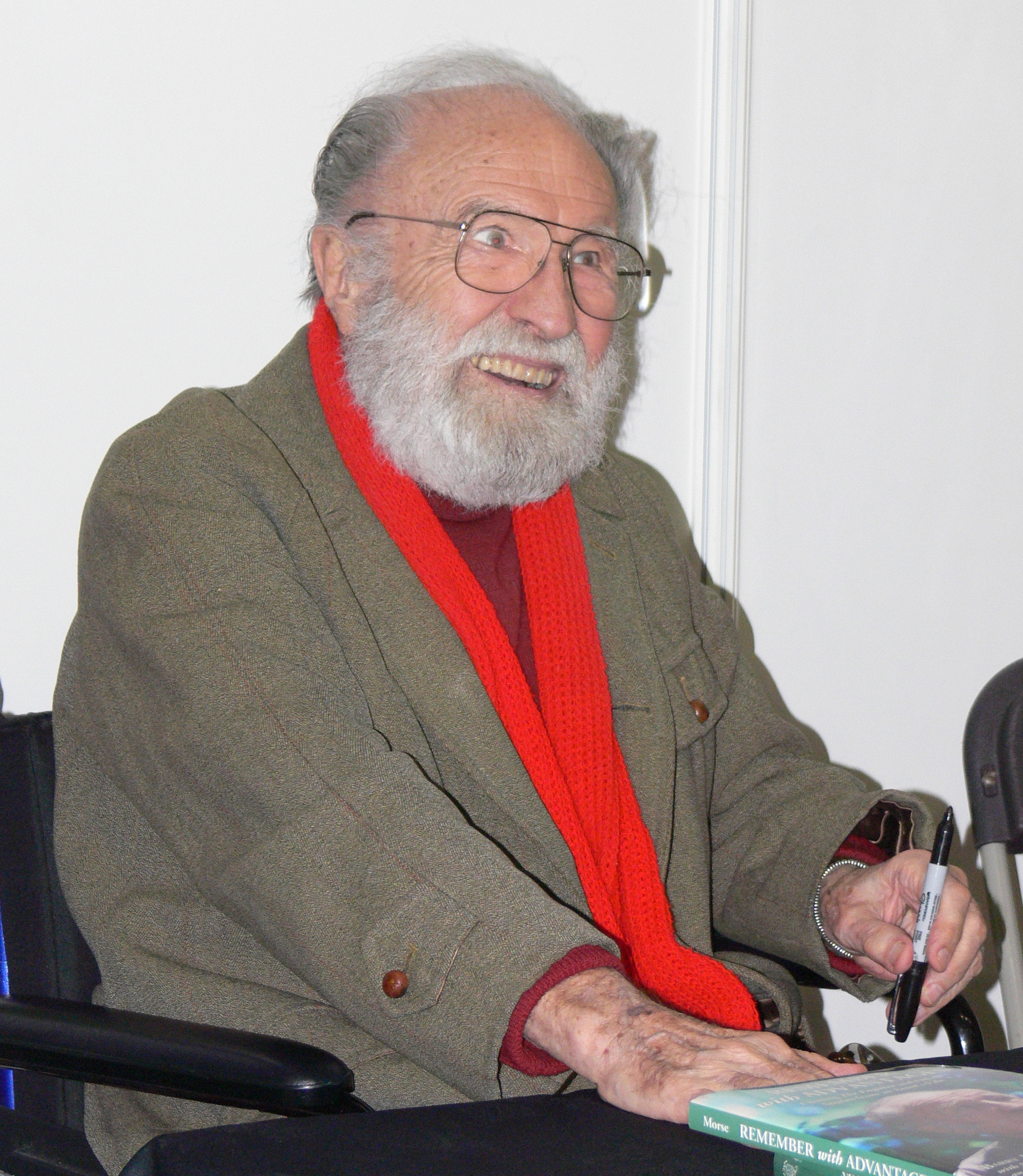 British actor Barry Morse.